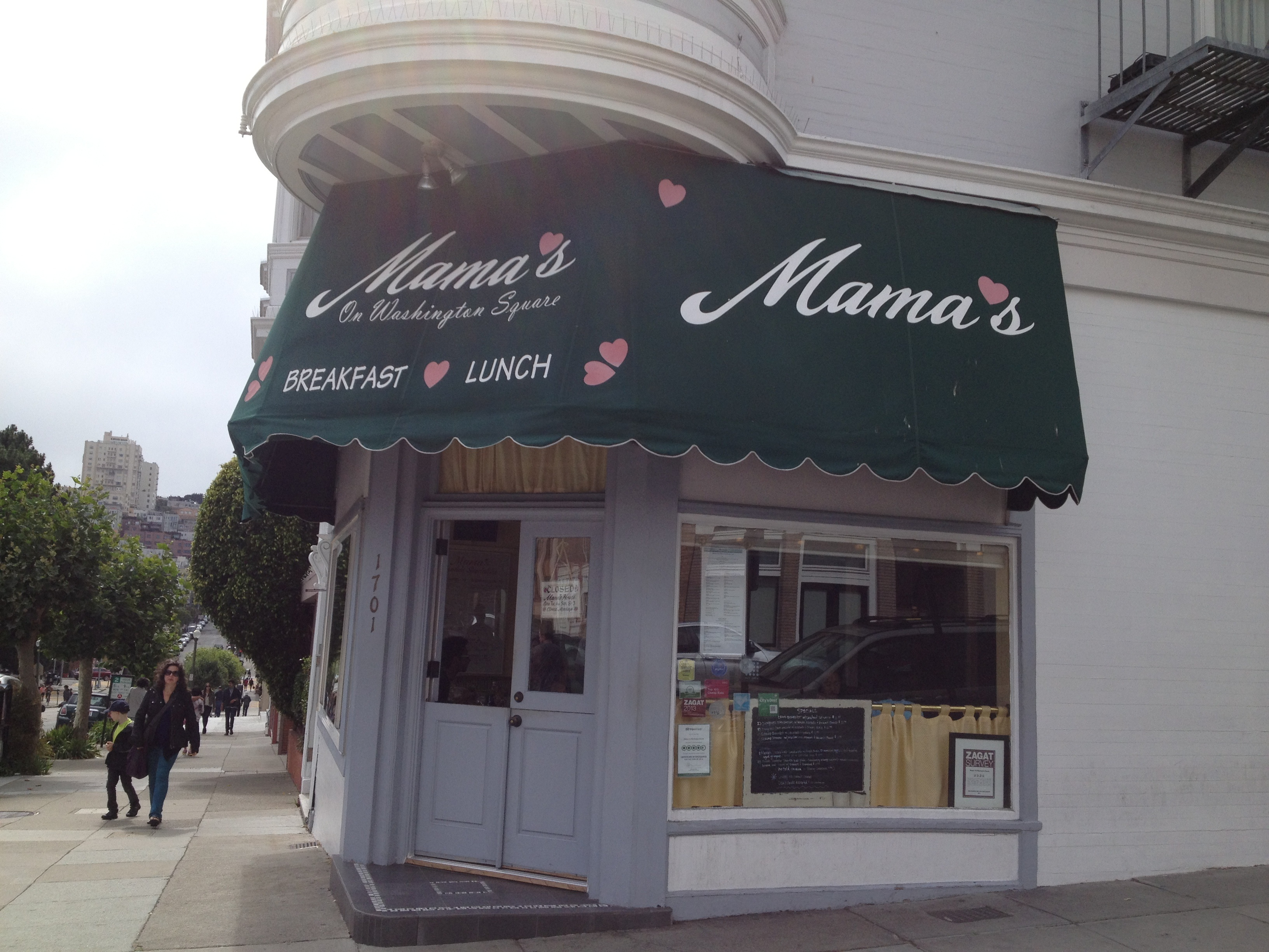 Picture of Mama's